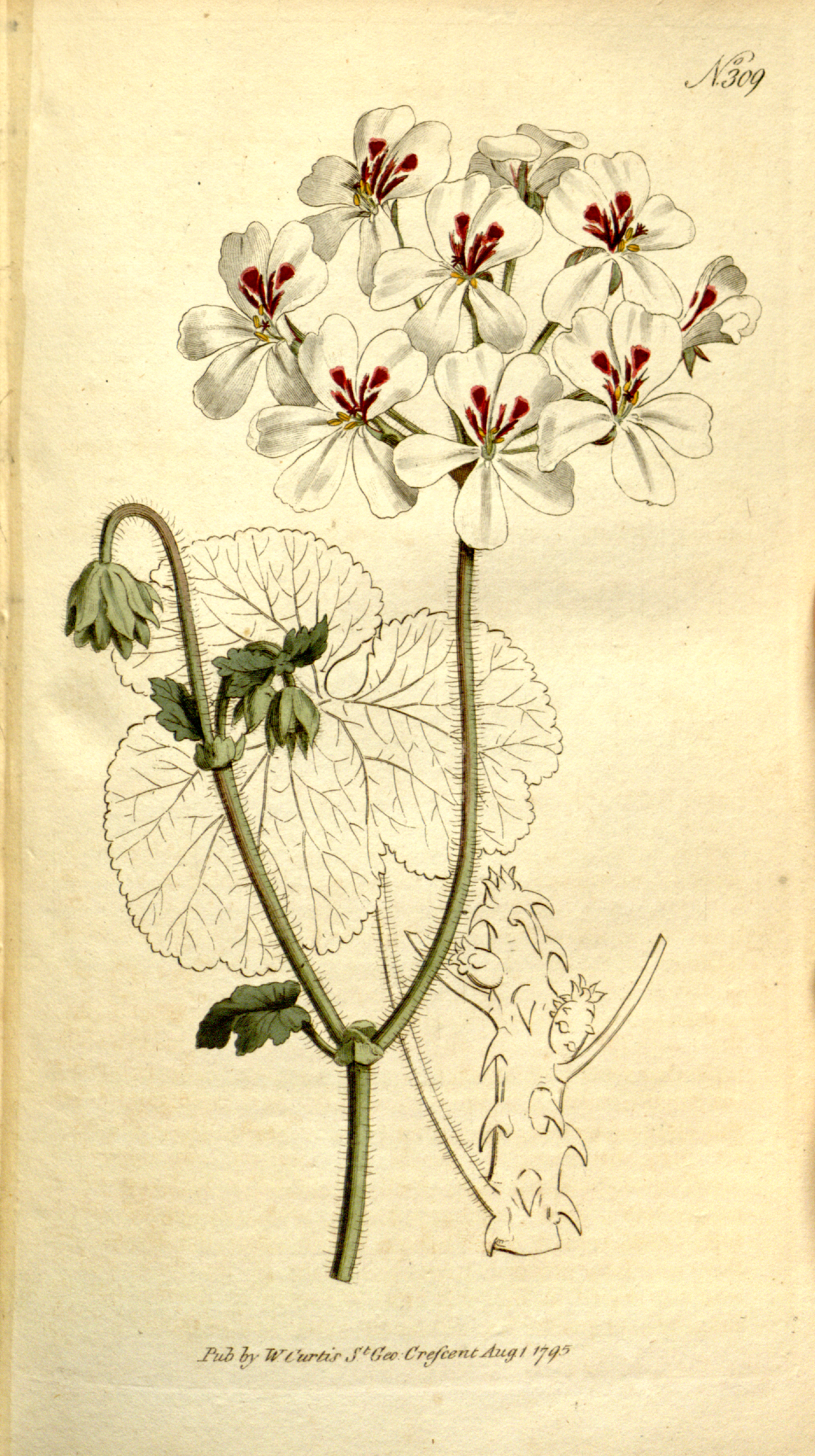 This is a plate from The Botanical Magazine, Volume 9.